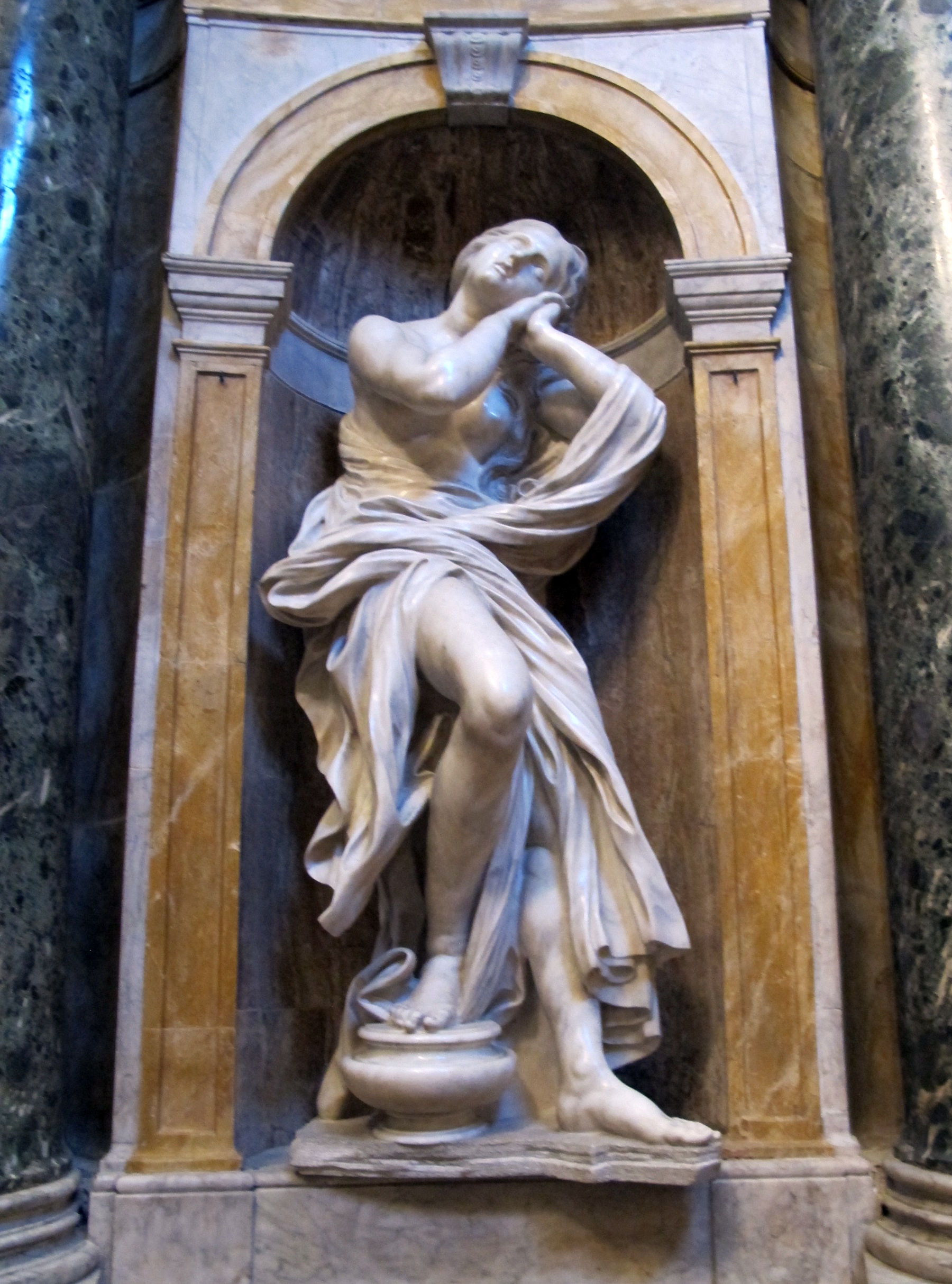 Mary Magdalen by Gian Lorenzo Bernini